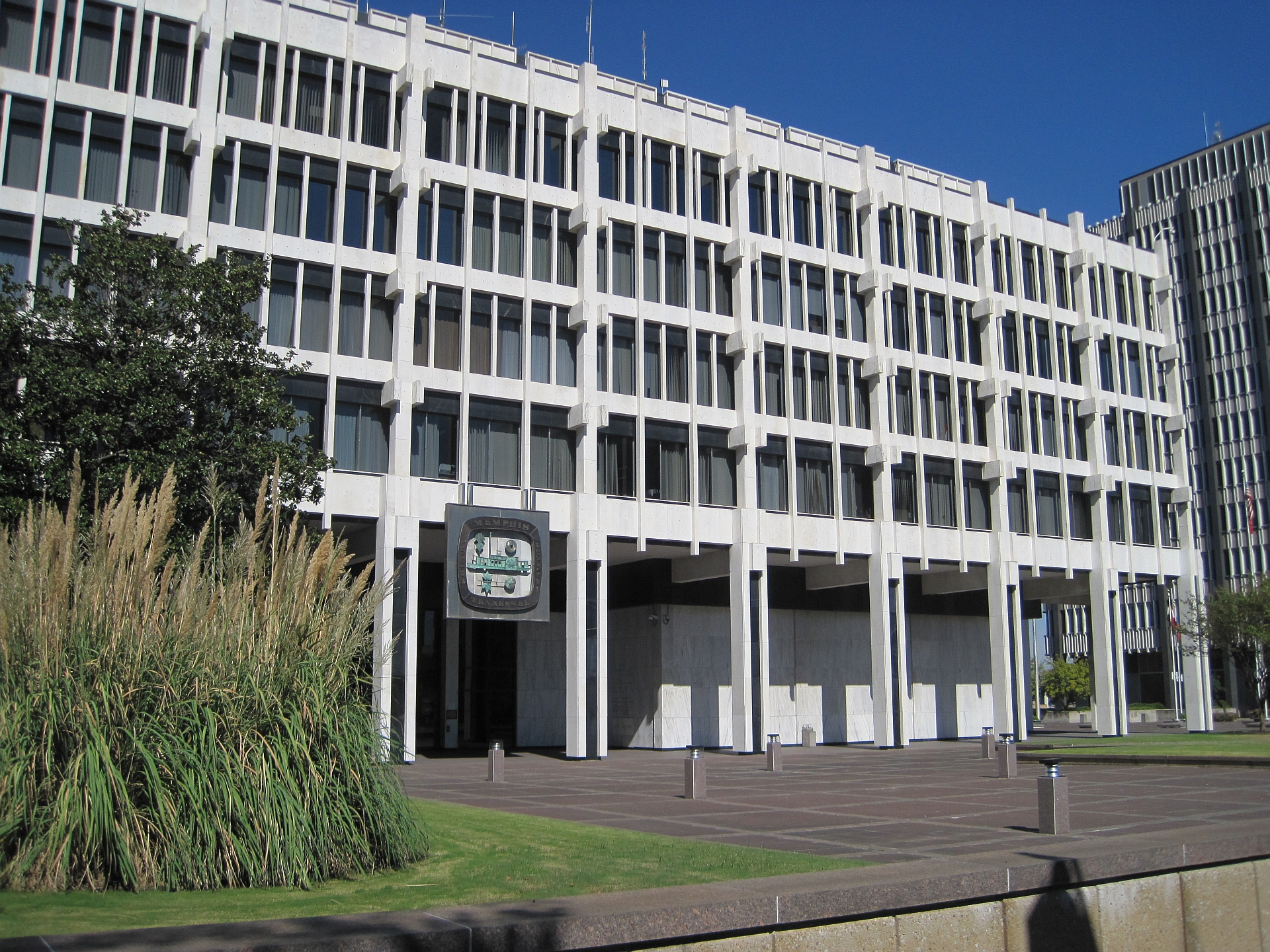 City Hall on Main Street in Downtown Memphis, Tennessee.